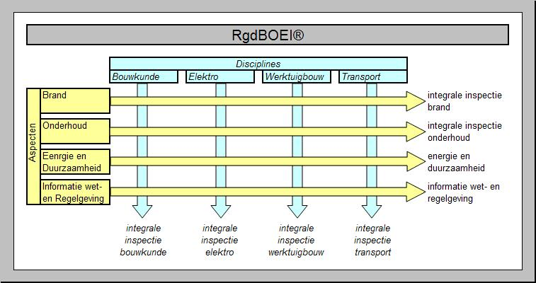 Scheme for the RgdBOEI production